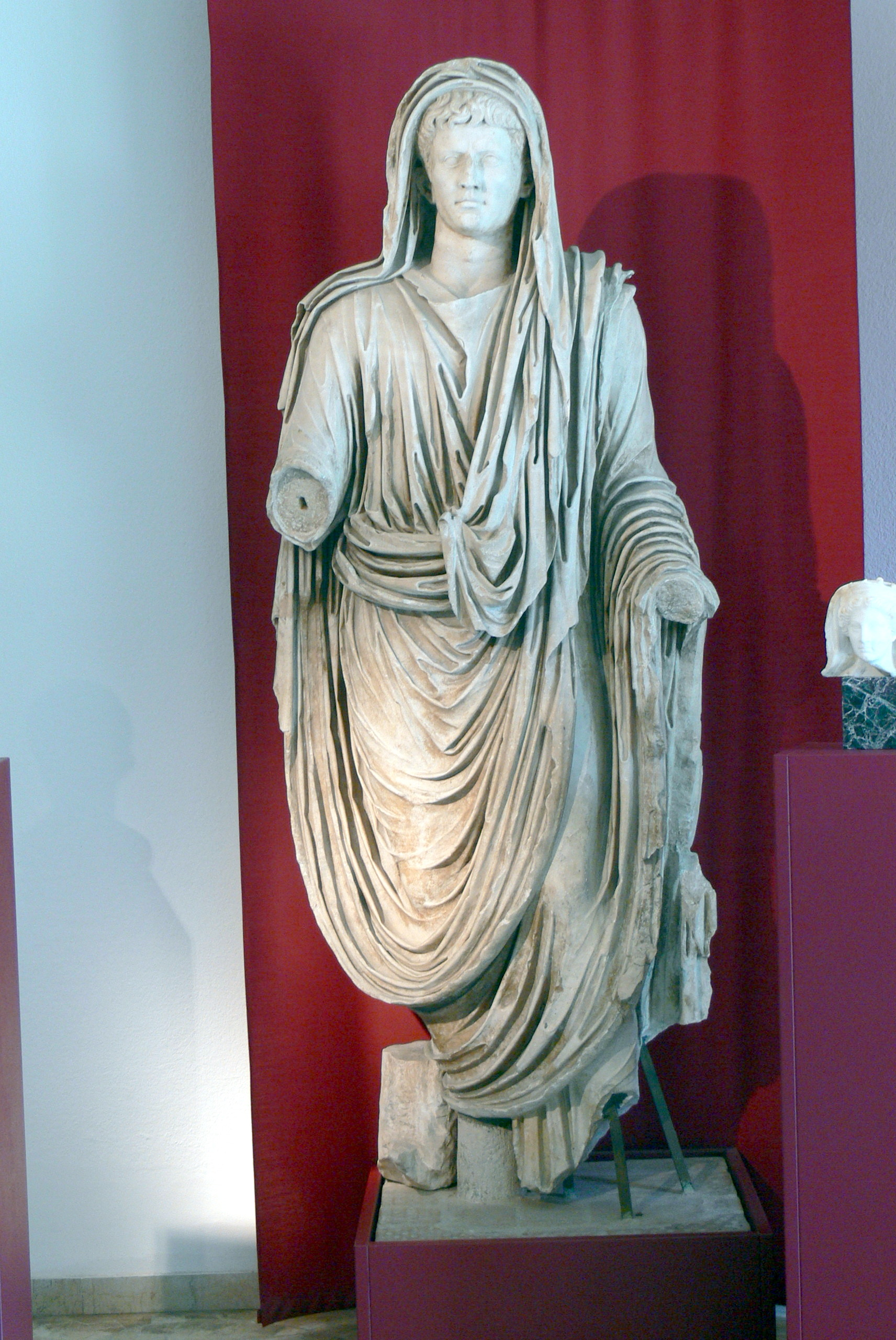 Archeological museum, Aquileia. Statue of Roman emperor Augustus ( or Tiberius ? ) clad as priest ( 1st century AD ).